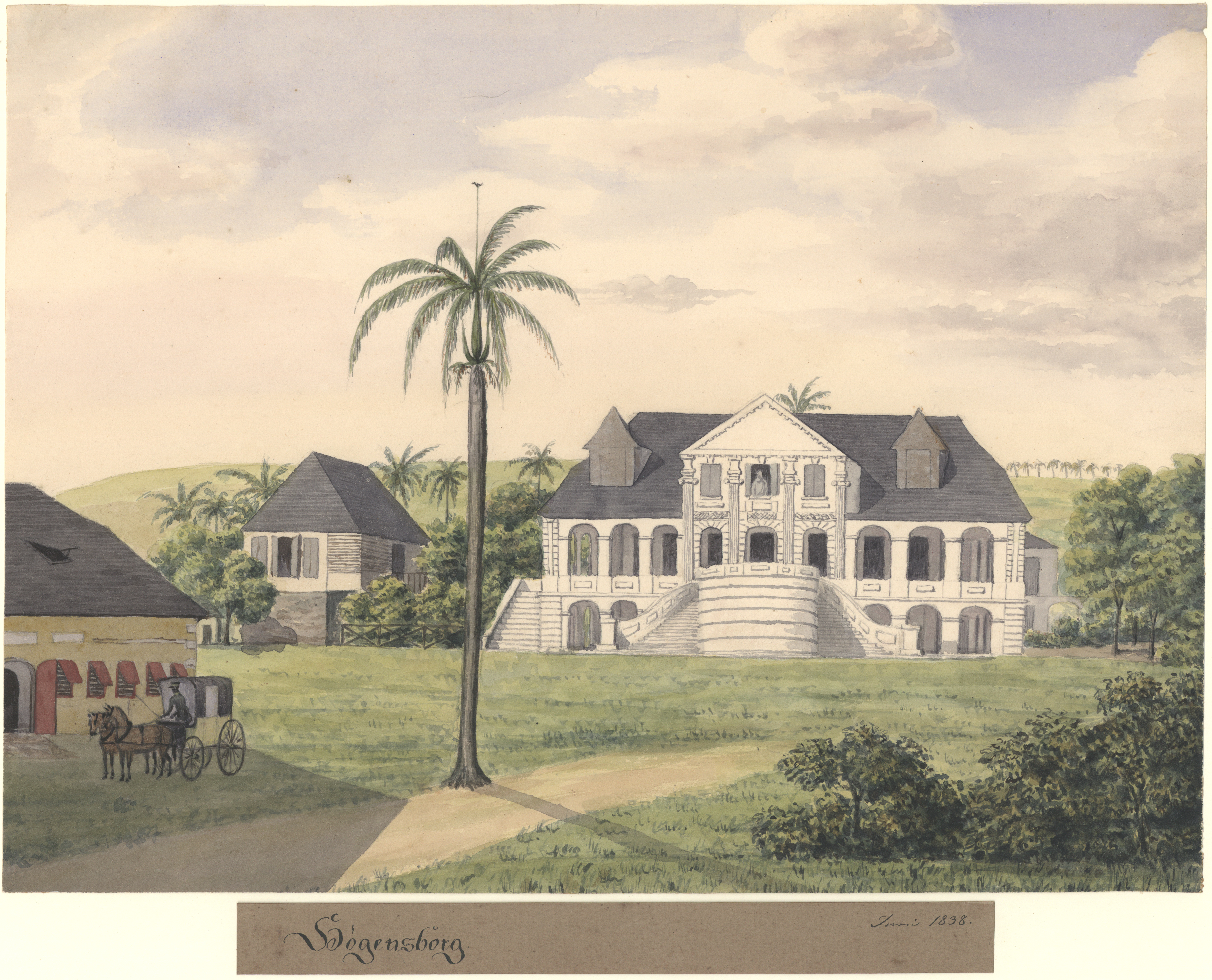 The Høgensborg estate on St. Croix, Danish West Indies drawn by Frederik von Scholten June 1838.